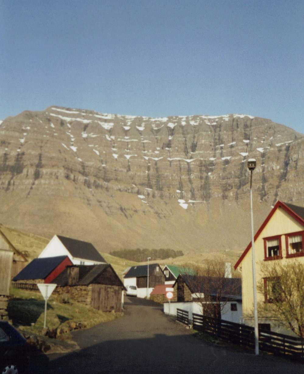 Forest near Kunoy, Faeroese